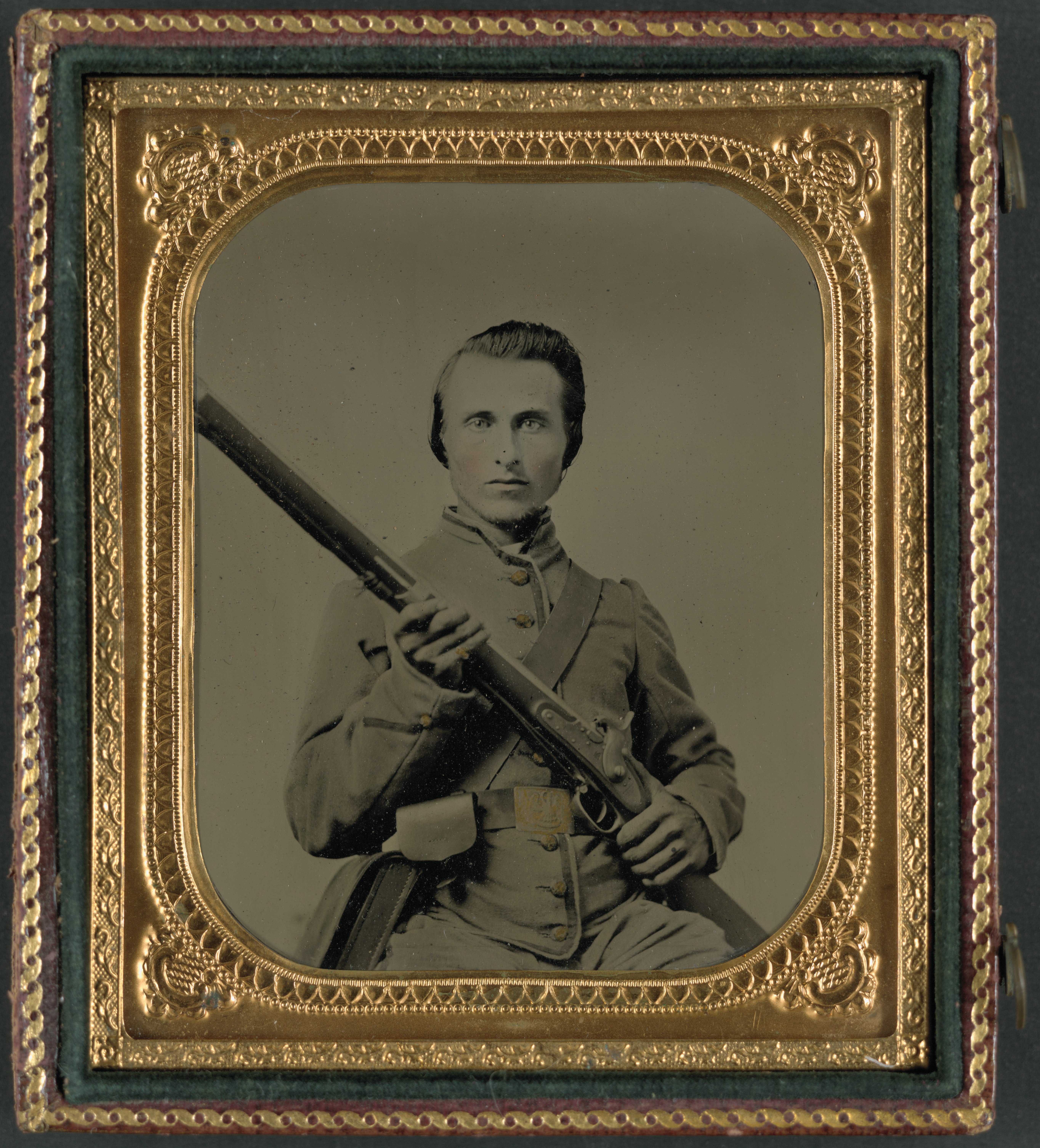 Title: Unidentified soldier in Confederate uniform and Louisiana state seal belt buckle with musket Abstract/medium: 1 photograph : sixth-plate tintype ; 9.3 x 8.0 cm (case)